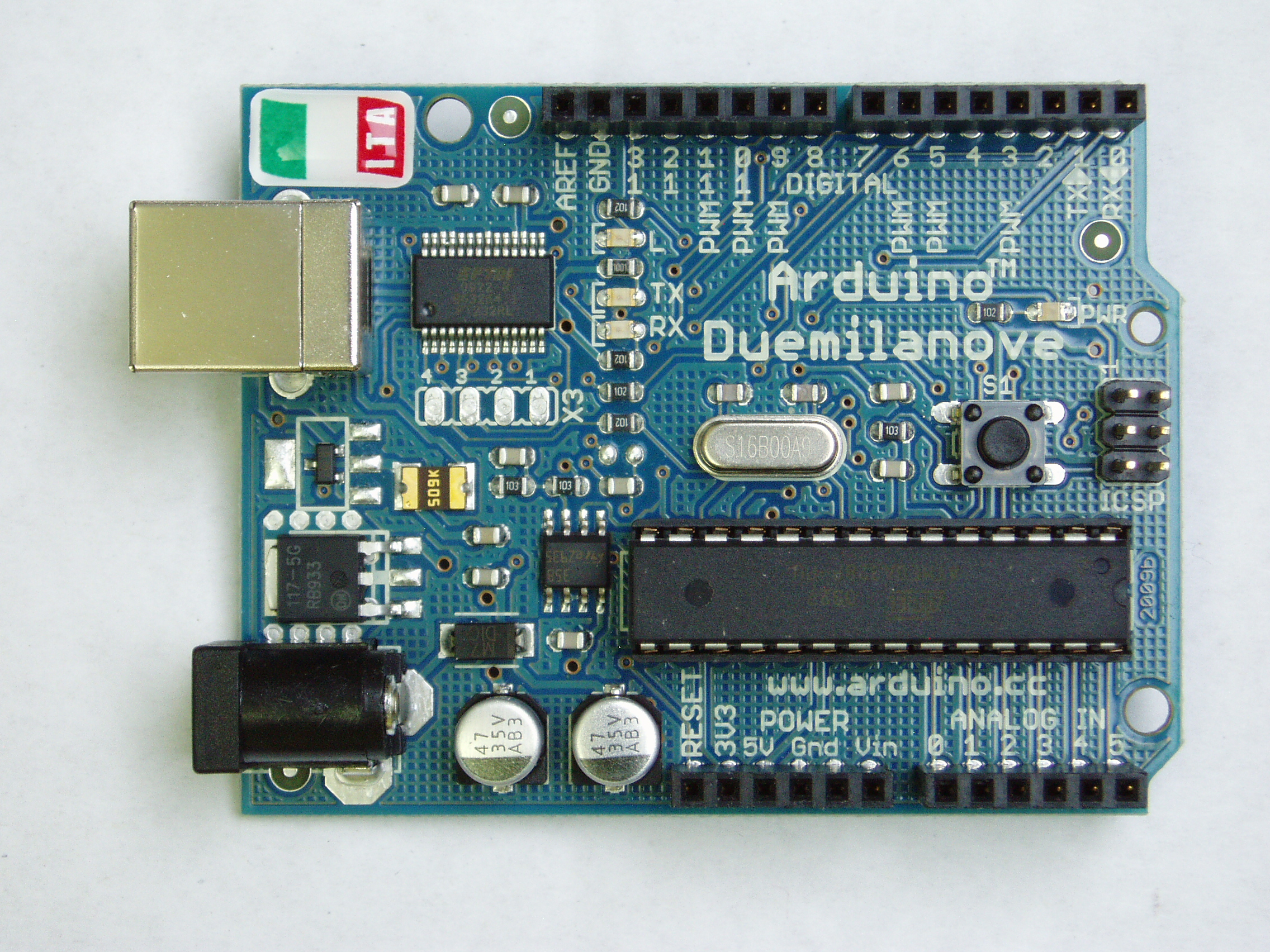 Photograph of an Arduino Duemilanove (2009b Revision)